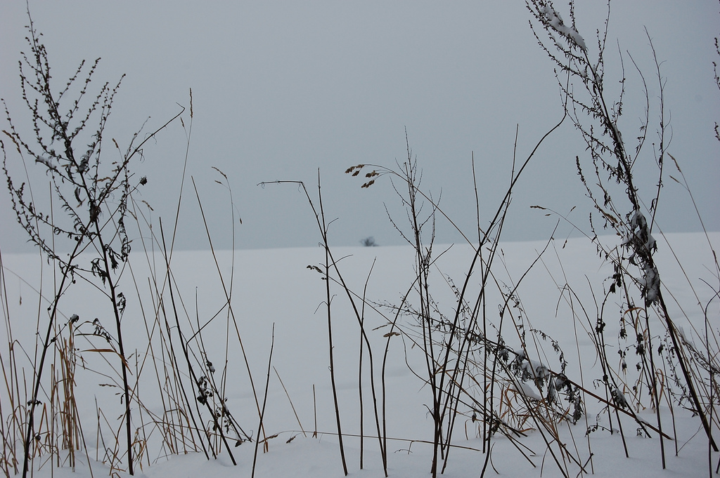 free for your creativity - please add a link of your work at this picture - many thanks and have fun :)*